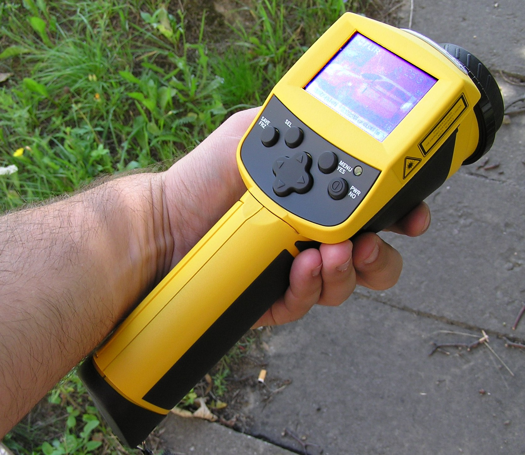 Termographic camera